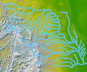 Belle Fourche River